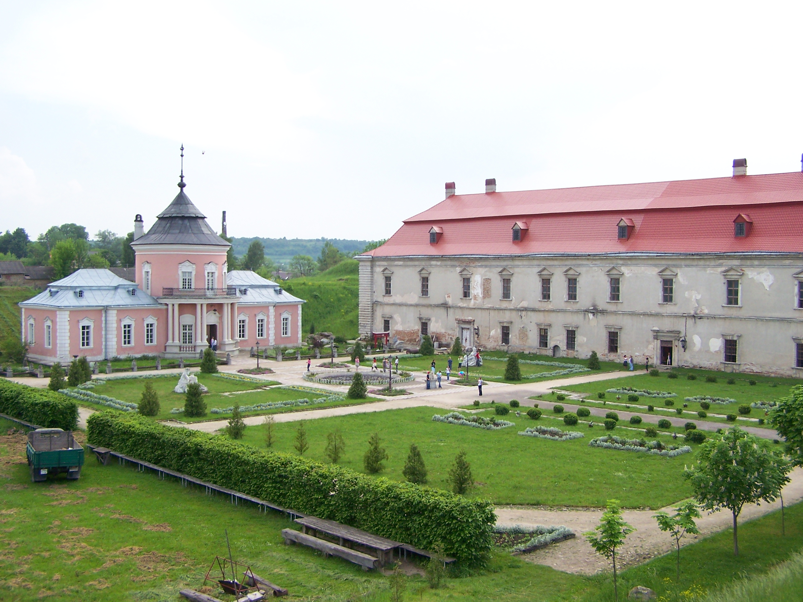 Castle in Złoczów (Ukraine, up to 1939 Poland).